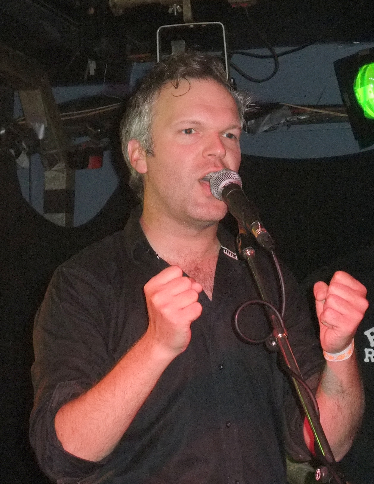 Mathias Blad performing with Falconer at The Underworld in London, 17th July 2009